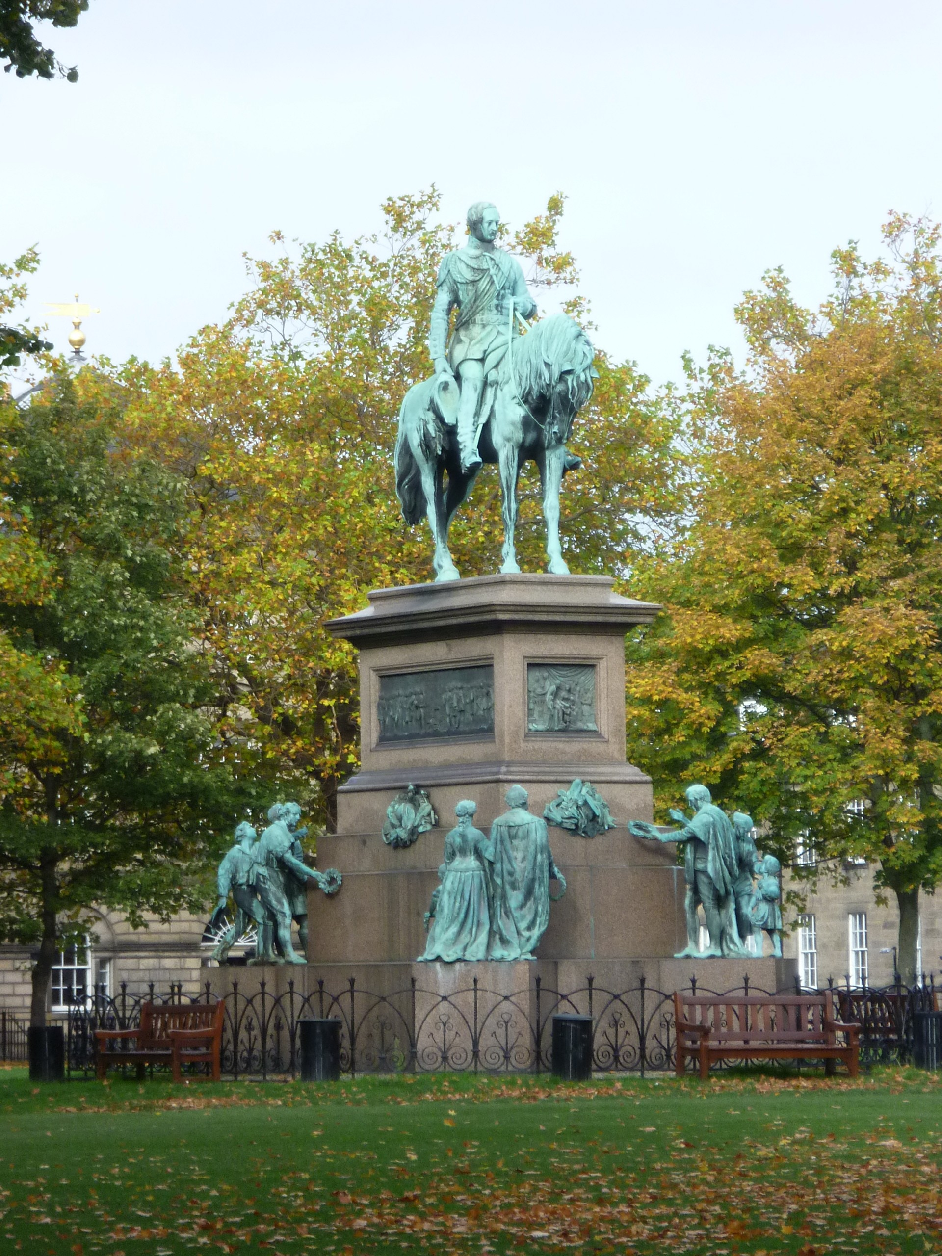 Albert Memorial in Charlotte Square Edinburgh